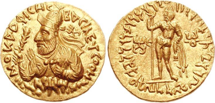 Coin of the Kushan king Vima Kadphises